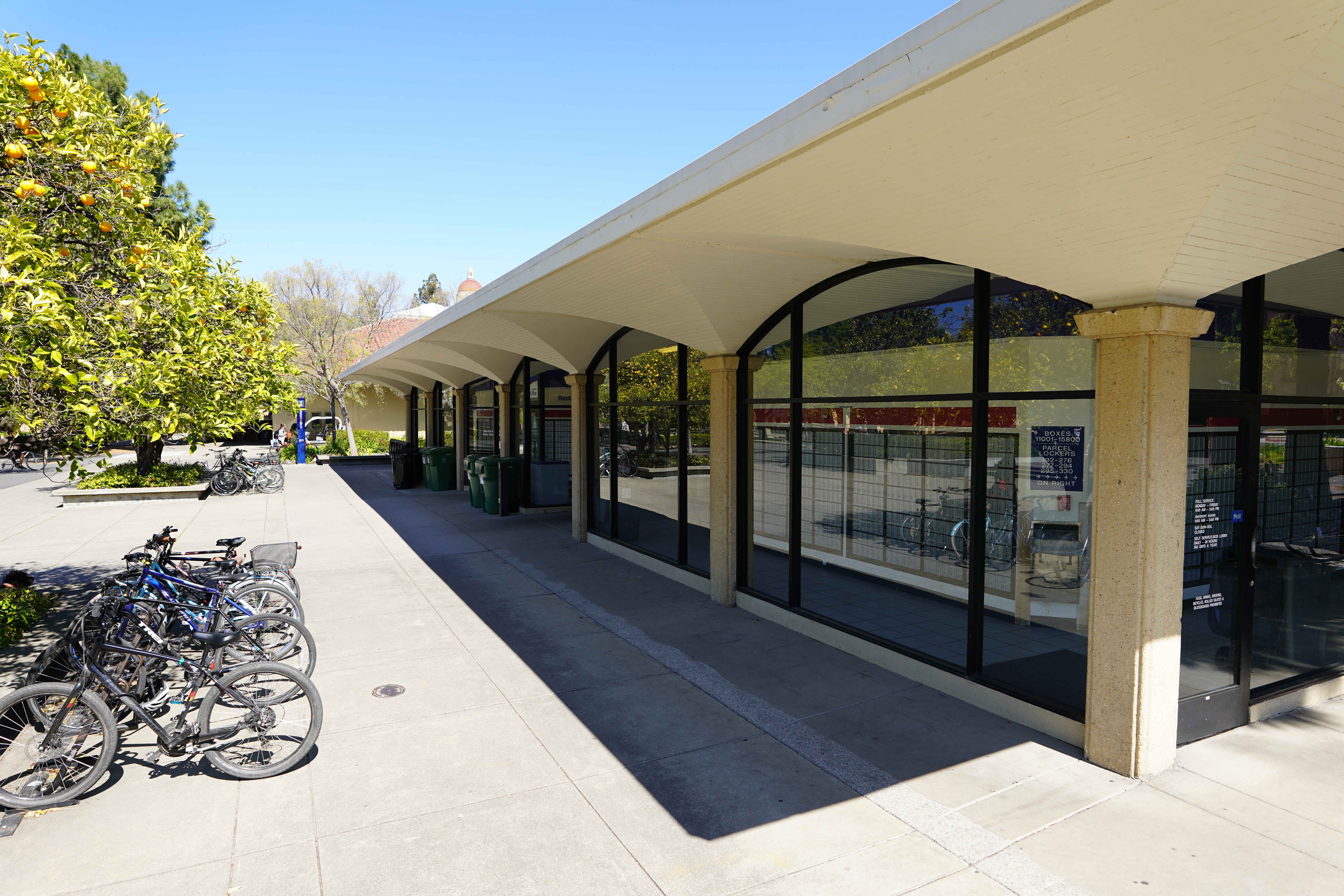 The photograph is of the front exterior of the Stanford Post Office as viewed from the southwest. Photograph taken on 2019-03-15T20:43:14Z.